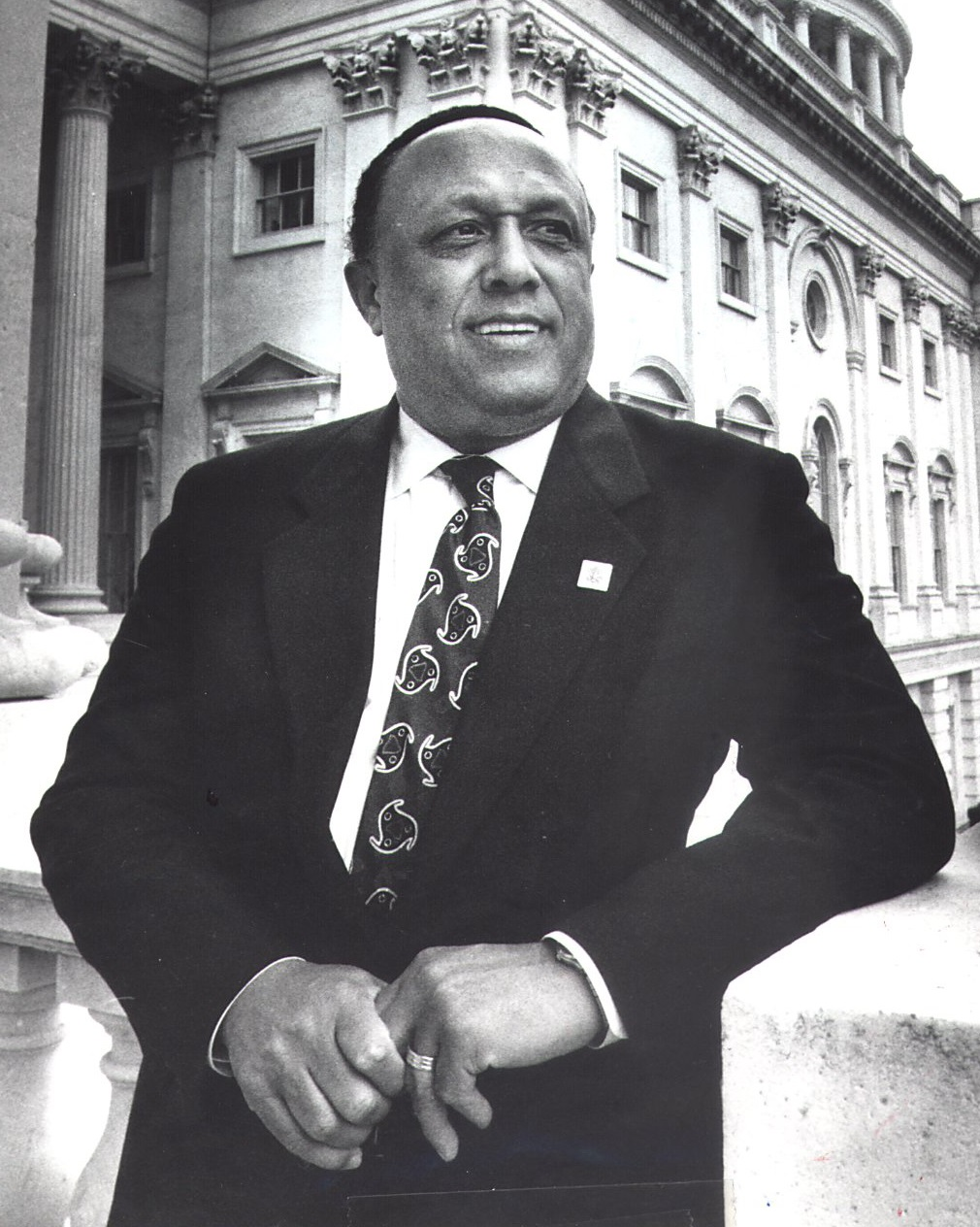 Lucien E. Blackwell, member of the United States House of Representatives.